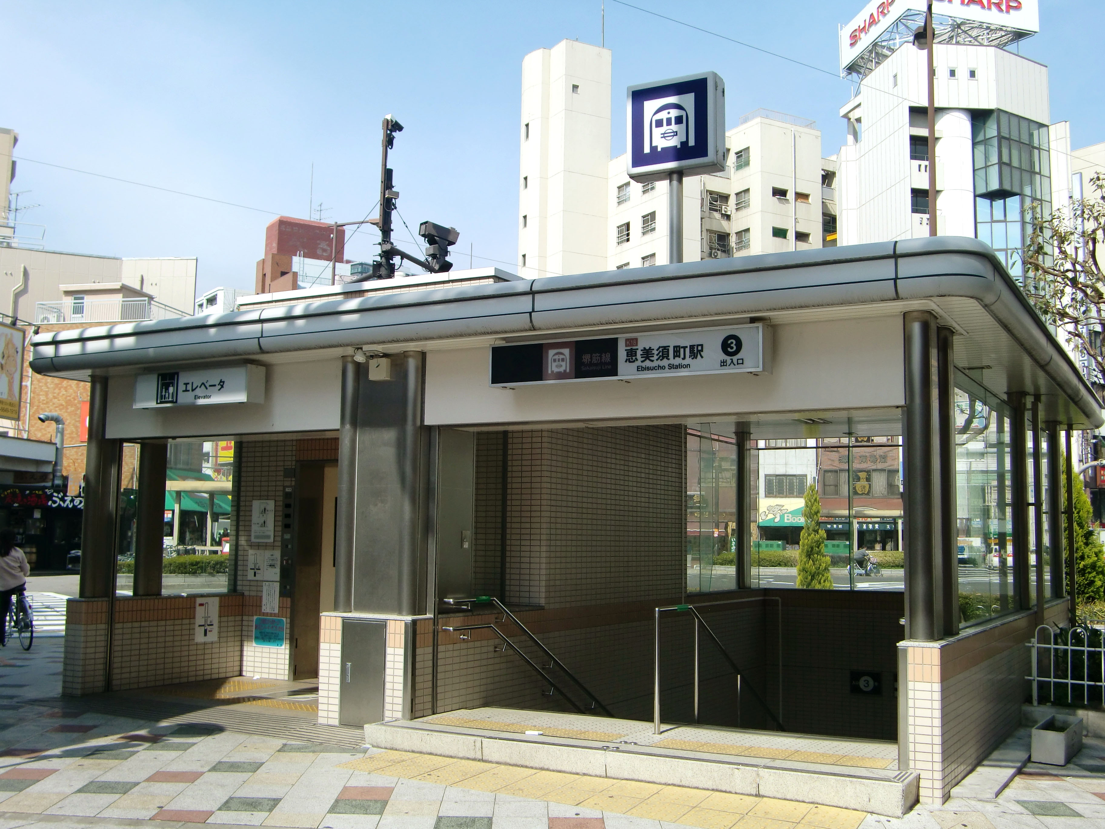 Subway Ebisucho Station,5-5-15 Nipponbashi Naniwa-ku Osaka-City Osaka Japan.